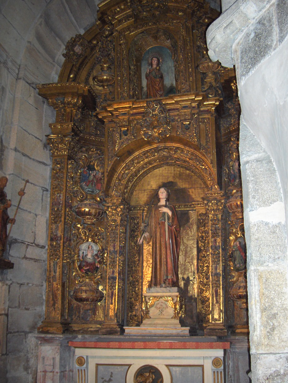 Retable in a radiating chapel in the cathedral of Santiago de Compostela, Spain